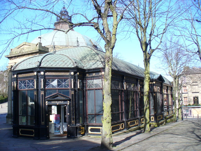 Royal Pump Room Museum Glass-fronted appendage at the rear of the octagonal stone building. The museum contains Harrogate's last Bath chair and the original wellhead can be seen in the basement.